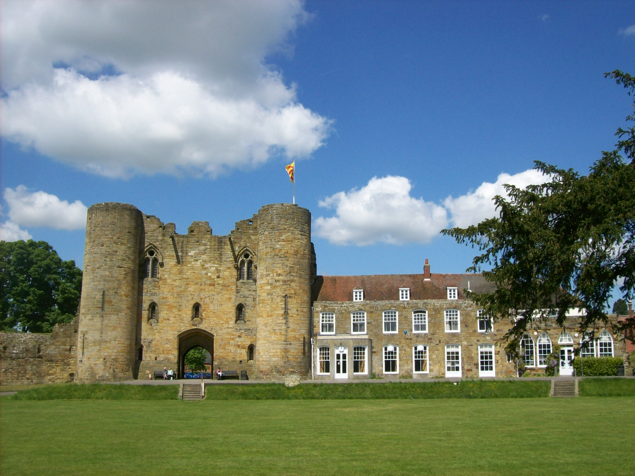 Tonbridge Castle